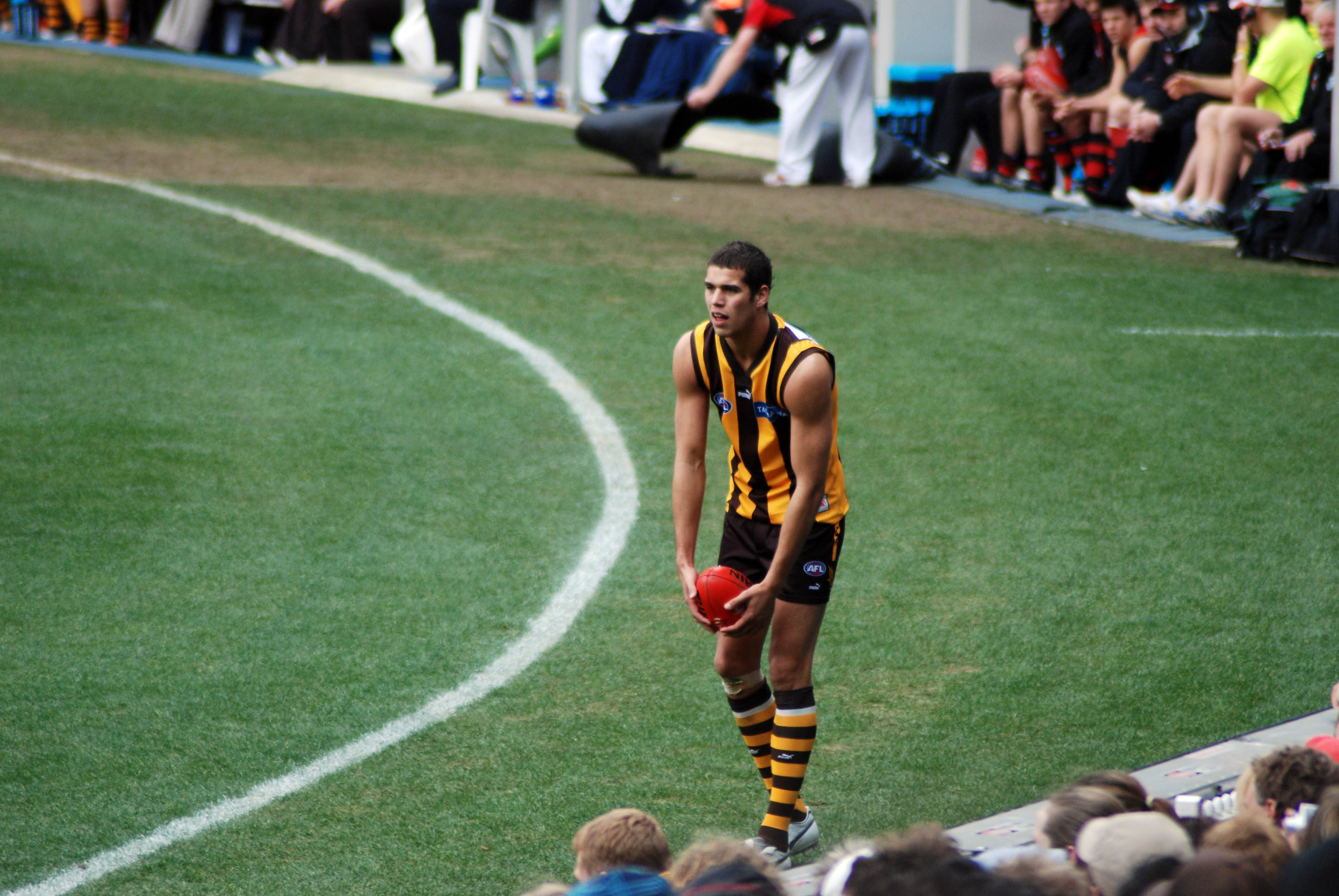 Lance Franklin prepares to kick for goal from the. Despite being a left-footer, Buddy prefers to kick from the left side of the ground. He has the uncanny ability to change to the flight of the ball from right to left., allowing him to slot goals from his favourite posotion.